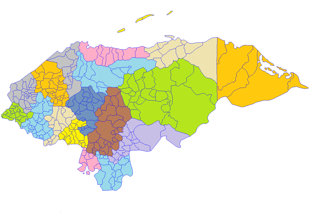 Municipalities of Honduras